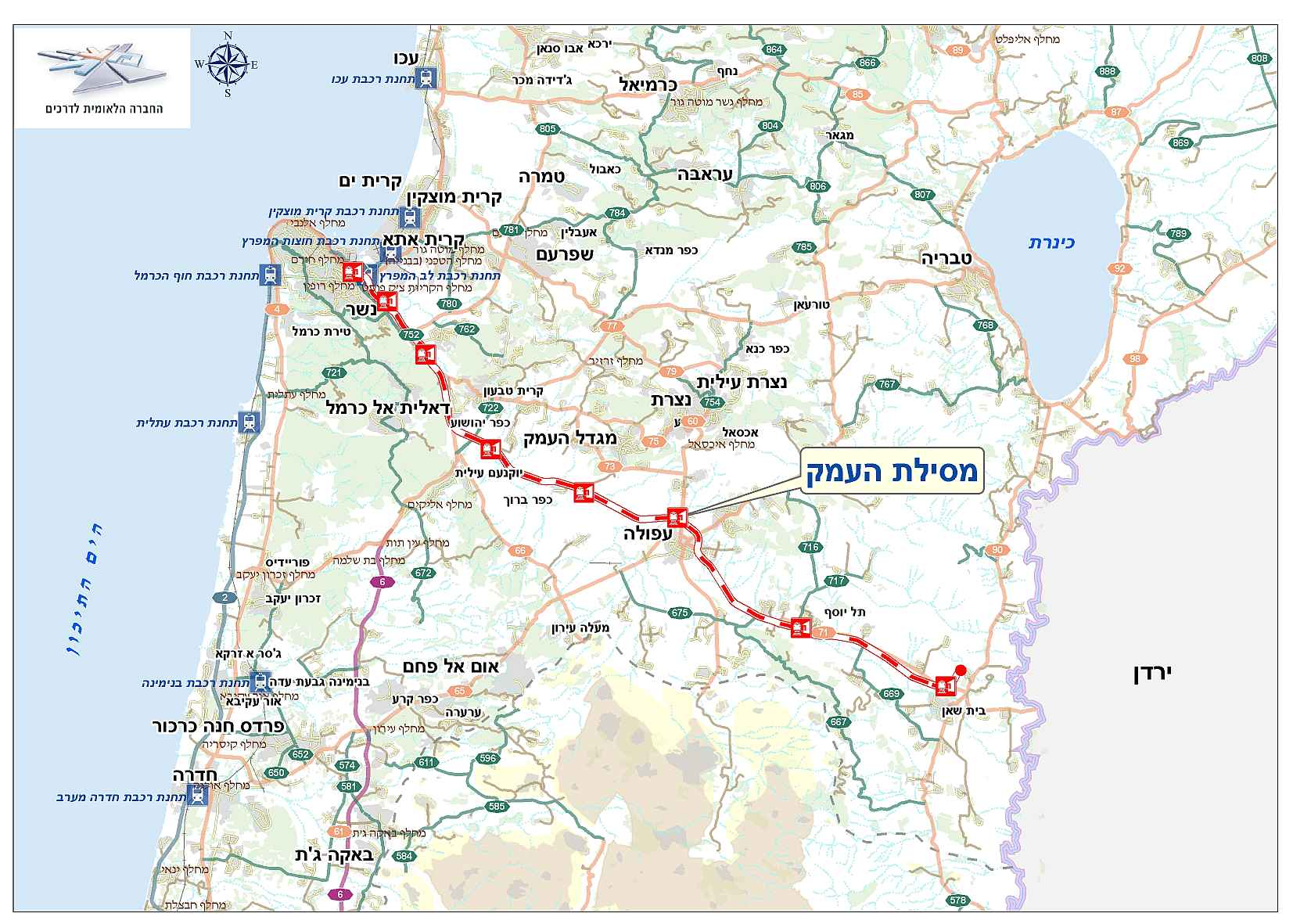 The Israel Valley Railroad Route: from Haifa to Beit-Shean, on her way to Jordan.